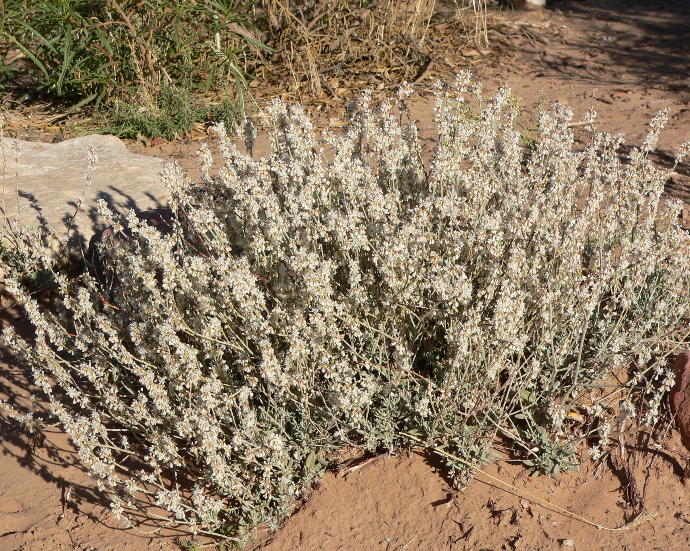 Eriogonum wrightii var. wrightii in Pine Creek Canyon, Red Rock Canyon, southern Nevada